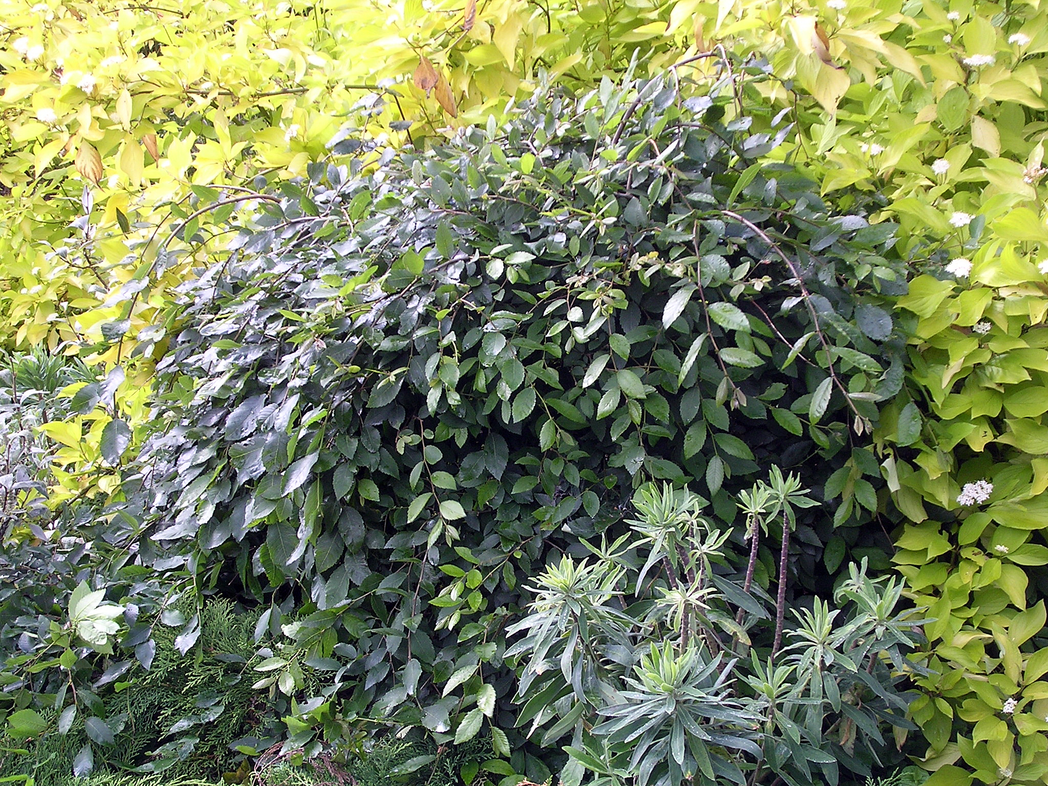 Photo taken by author, July 2007